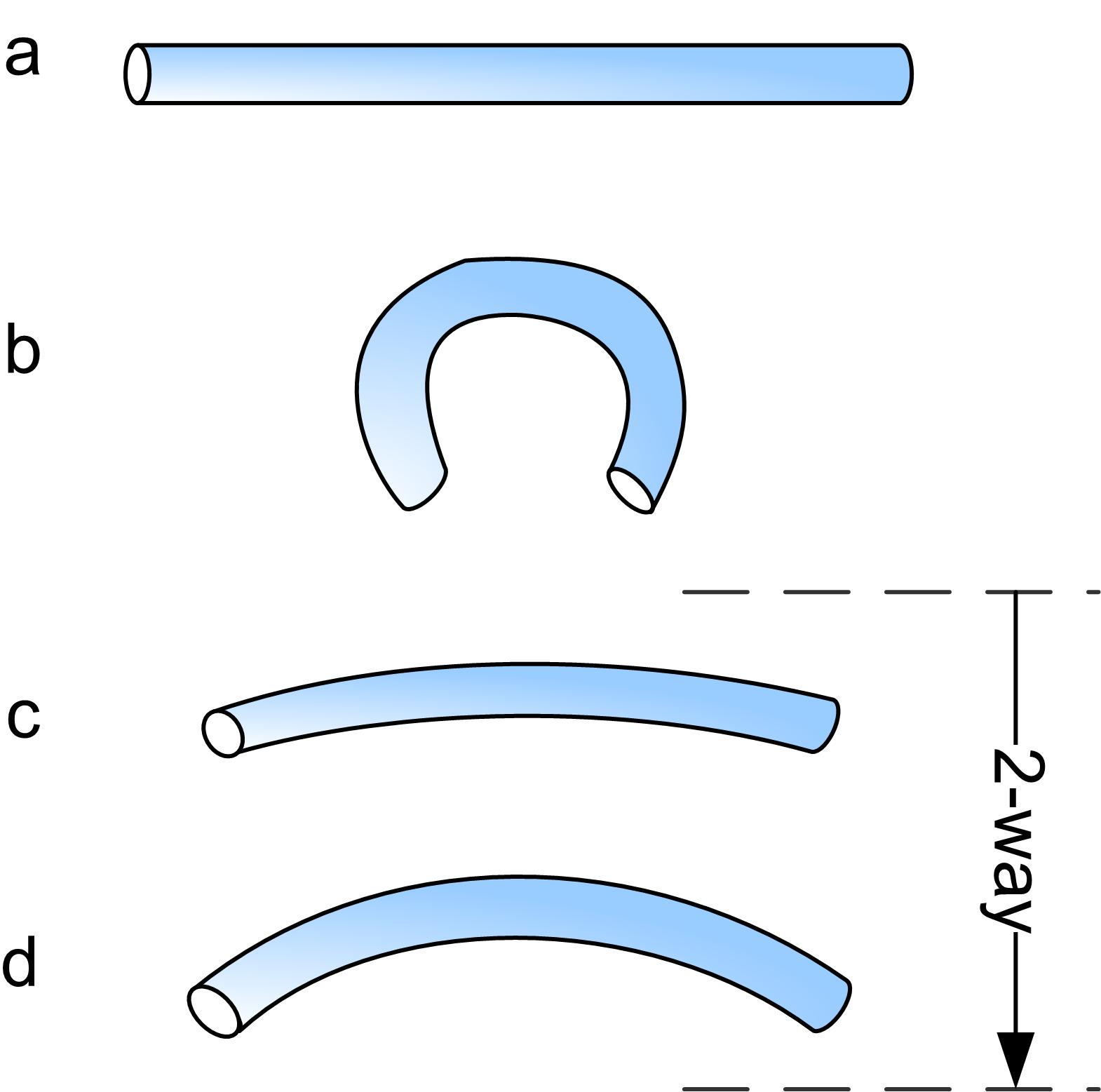 two way shape memory effect